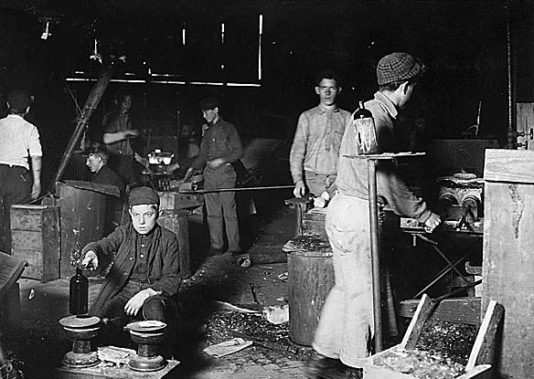 Day scene. Wheaton Glass Works. Boy is Howard Lee. His mother showed me the family record in Bible which gave birth July 15, 1894. 15 years old now, but has been in glass works two years and some nights. Started at 13 years old. Millville, N.J., 11/1909.